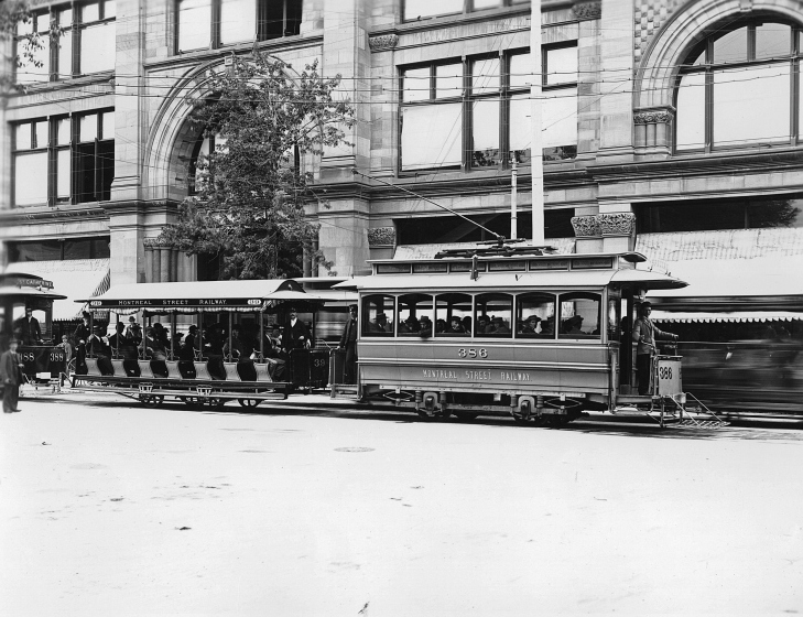 Photograph, Electric trams, Ste. Catherine St., Montreal, QC, 1895, Wm. Notman & Son, Silver salts on glass - Gelatin dry plate process, 20 x 25 cm